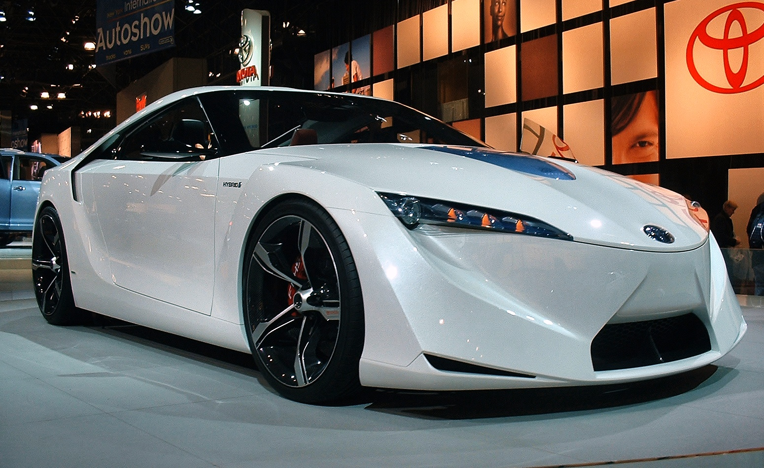 Picture of the Toyota FT-HS Concept taken at the New York International Auto Show